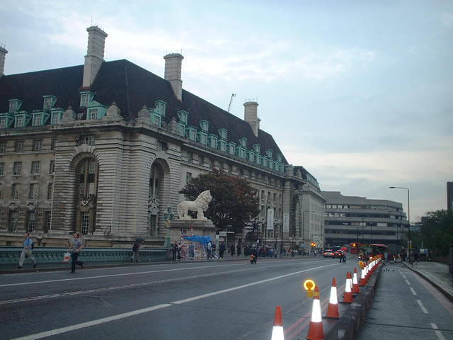 County Hall and the South Bank Lion. A damp and grey September evening. View from Westminster Bridge to County Hall and the South Bank Lion. You can see the original county hall to the left, a more recent extension in the centre and the derelict brutalist extension on the centre right. The northbound carriageway is partly blocked off because of works on the actual bridge.